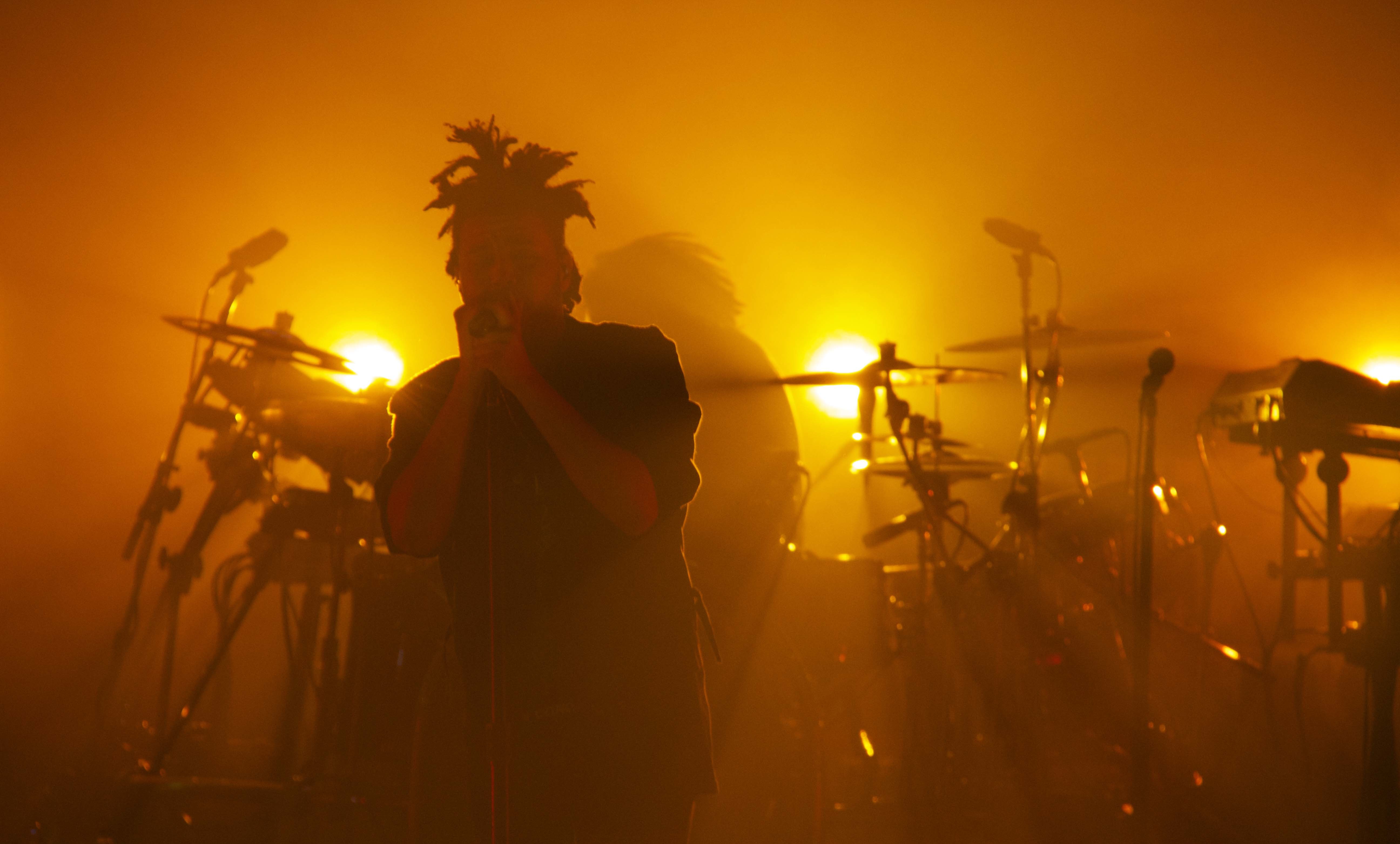 The Weeknd @ Massey Hall October 17, 2013 Photography by CZR-E for The Come Up Show.